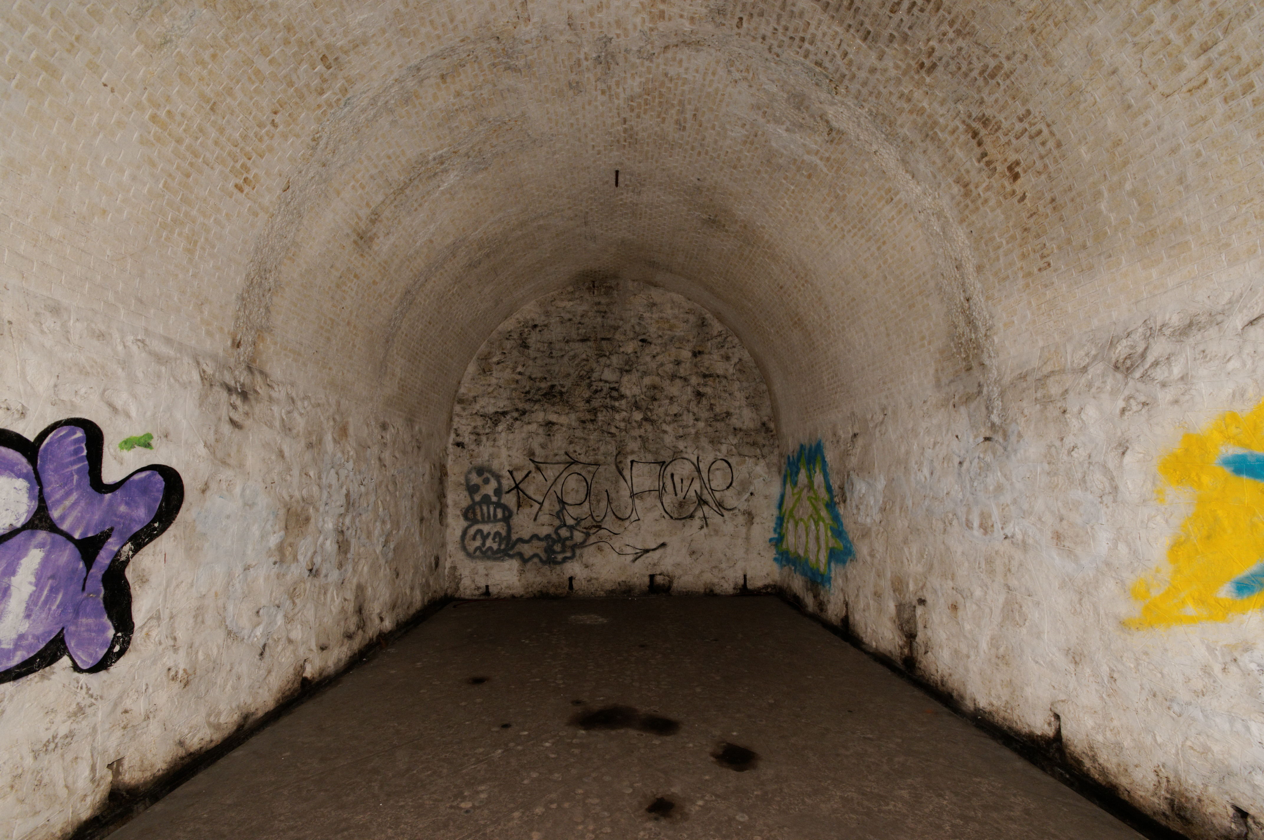 This photograph was taken with a Nikon D300 Fort du Parmont : dans une des salles des magasins sous roc.